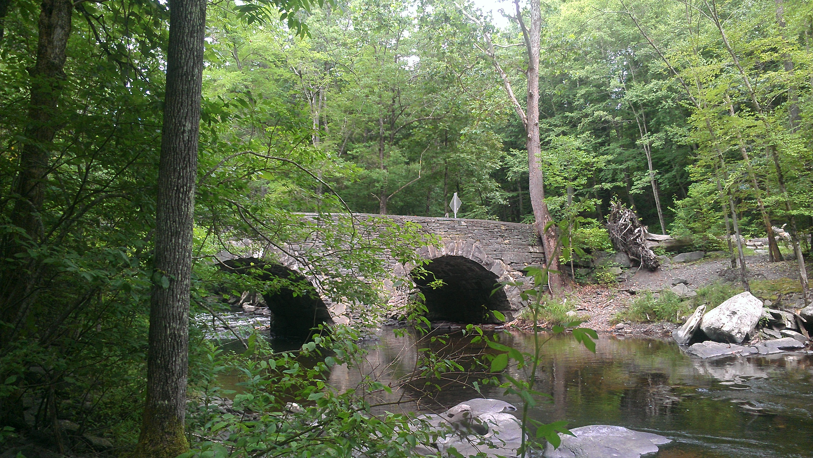 Hiking the Tusten Mountain Trail in the Upper Delaware River Valley. The Ten Mile River flows into the Delaware. This stone arch bridge was built in 1896.